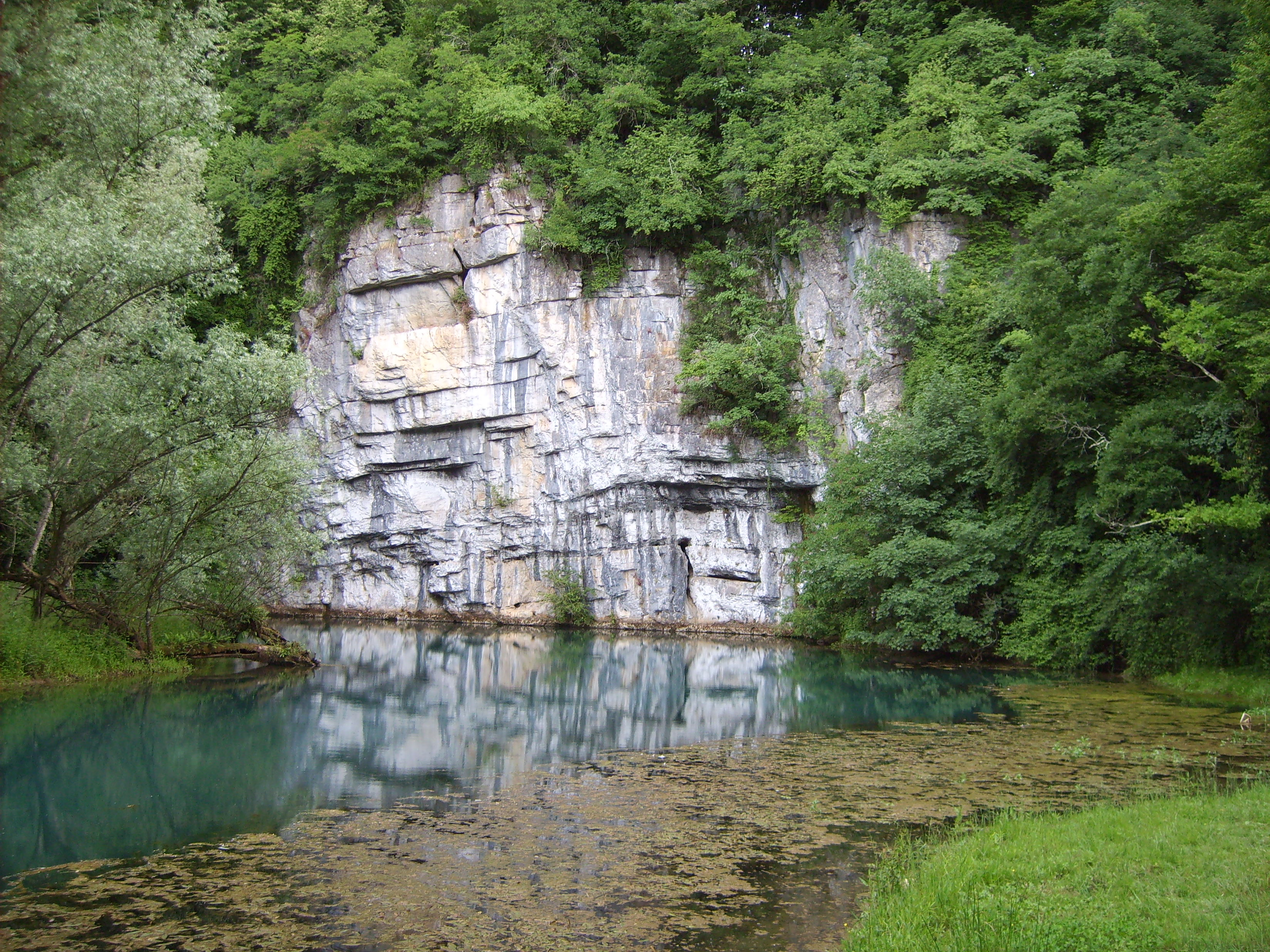 Escarpment above the Krupa river spring (Village Krupa near Stranska vas, Bela krajina region)